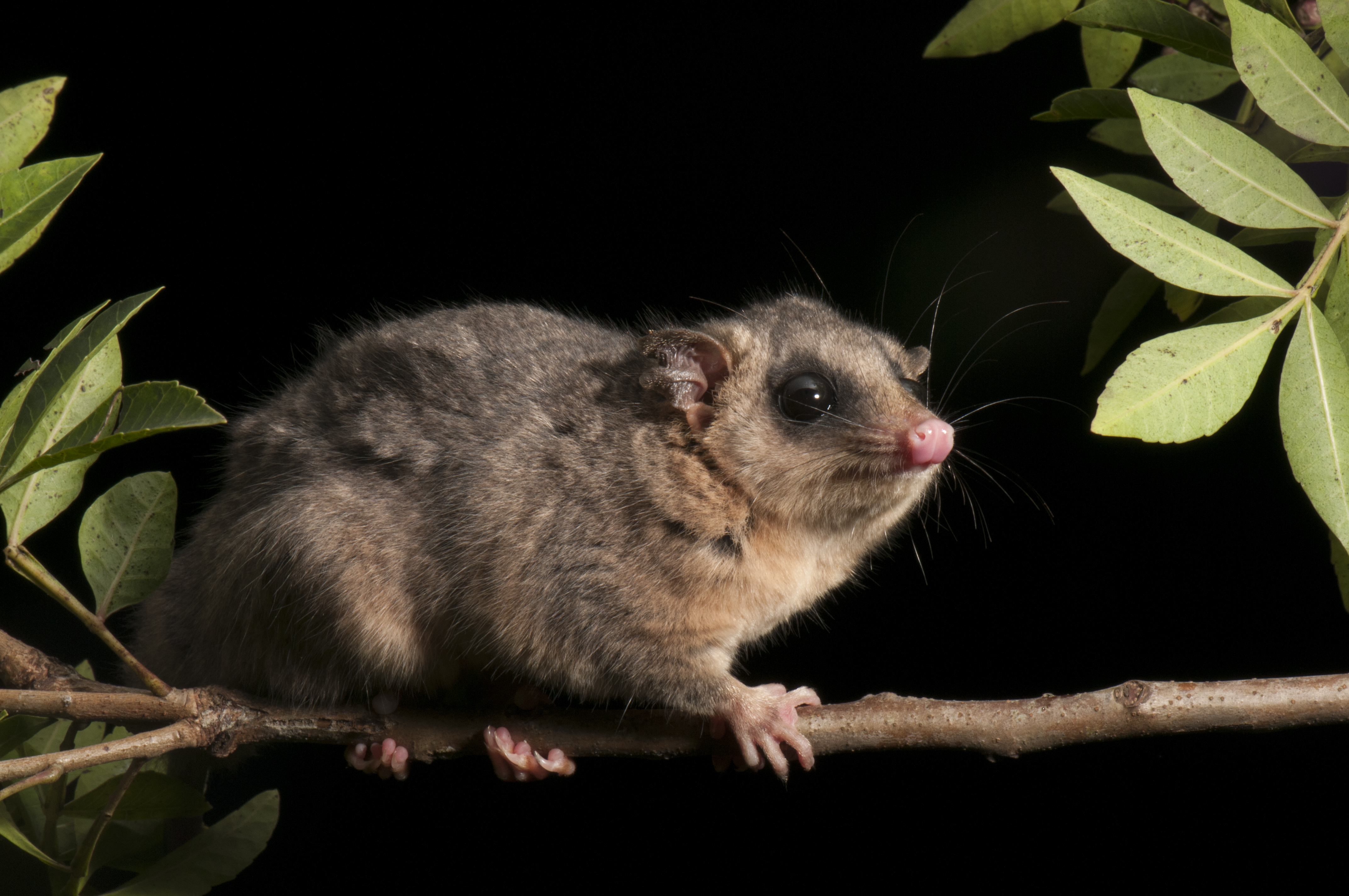 Species of small and arboreal marsupial (Marmosa paraguayana), found in the southeast and parts of southern Brazil.